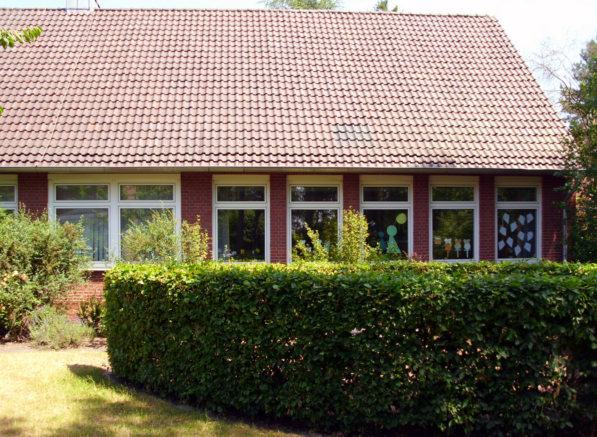 school of Klausheide (Grafschaft Bentheim), old building